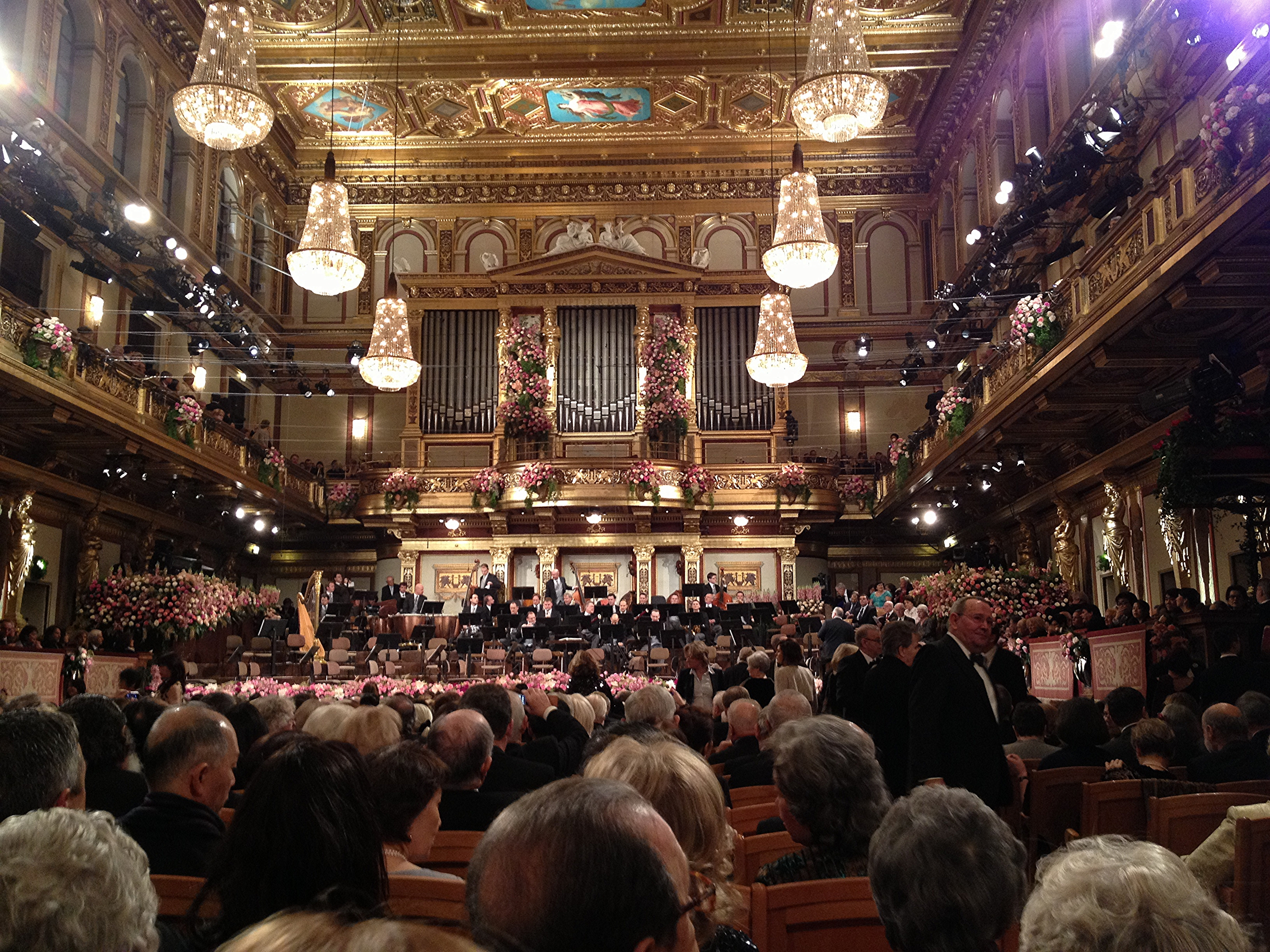 The New Year's Eve Concert 2013 at The Wiener Musikverein